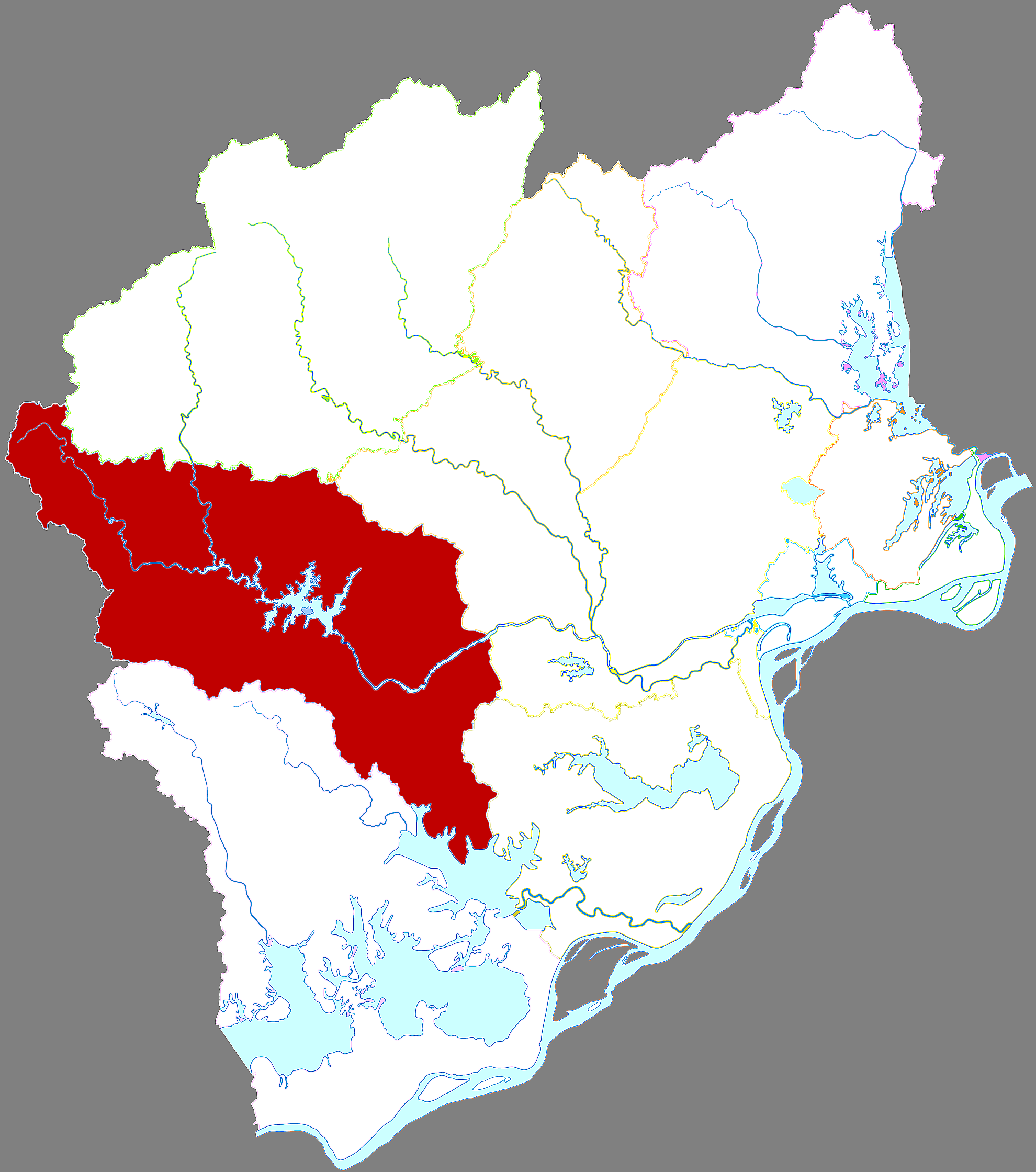 Location of Taihu county in Anqing city, China